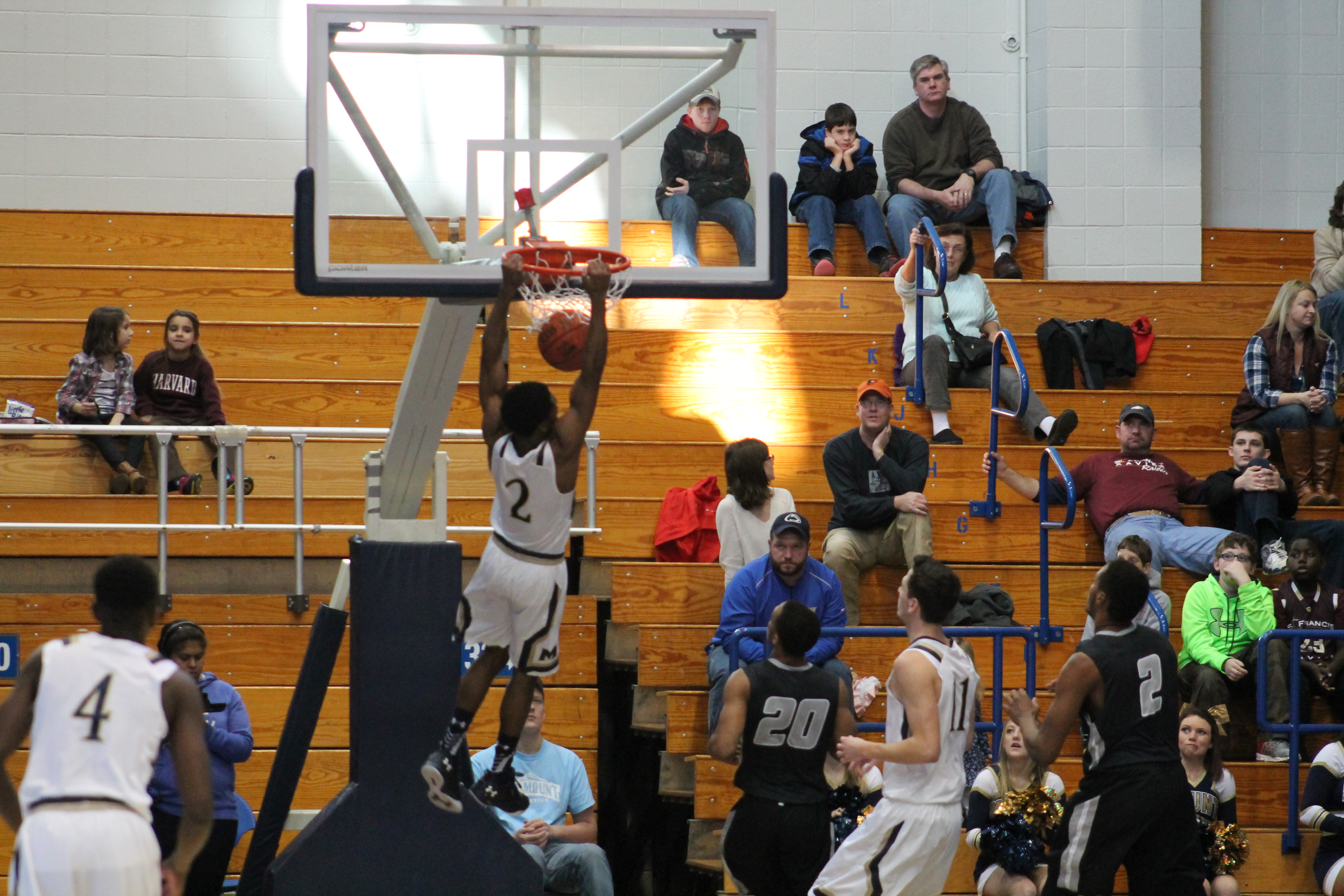 Mount St. Mary's men's basketball player Byron "BK" Ashe slam dunks the ball during a Northeast Conference game against LIU-Brooklyn on January 2, 2016 at Knott Arena in Emmitsburg, Maryland.